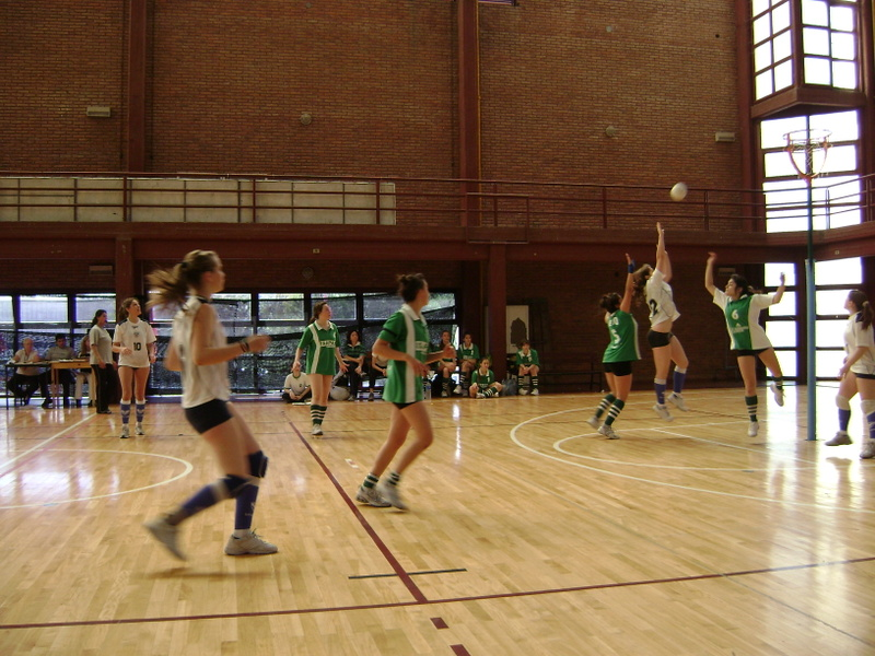 Ferro de General Pico vs. Vélez Sarsfield in a game of cestoball